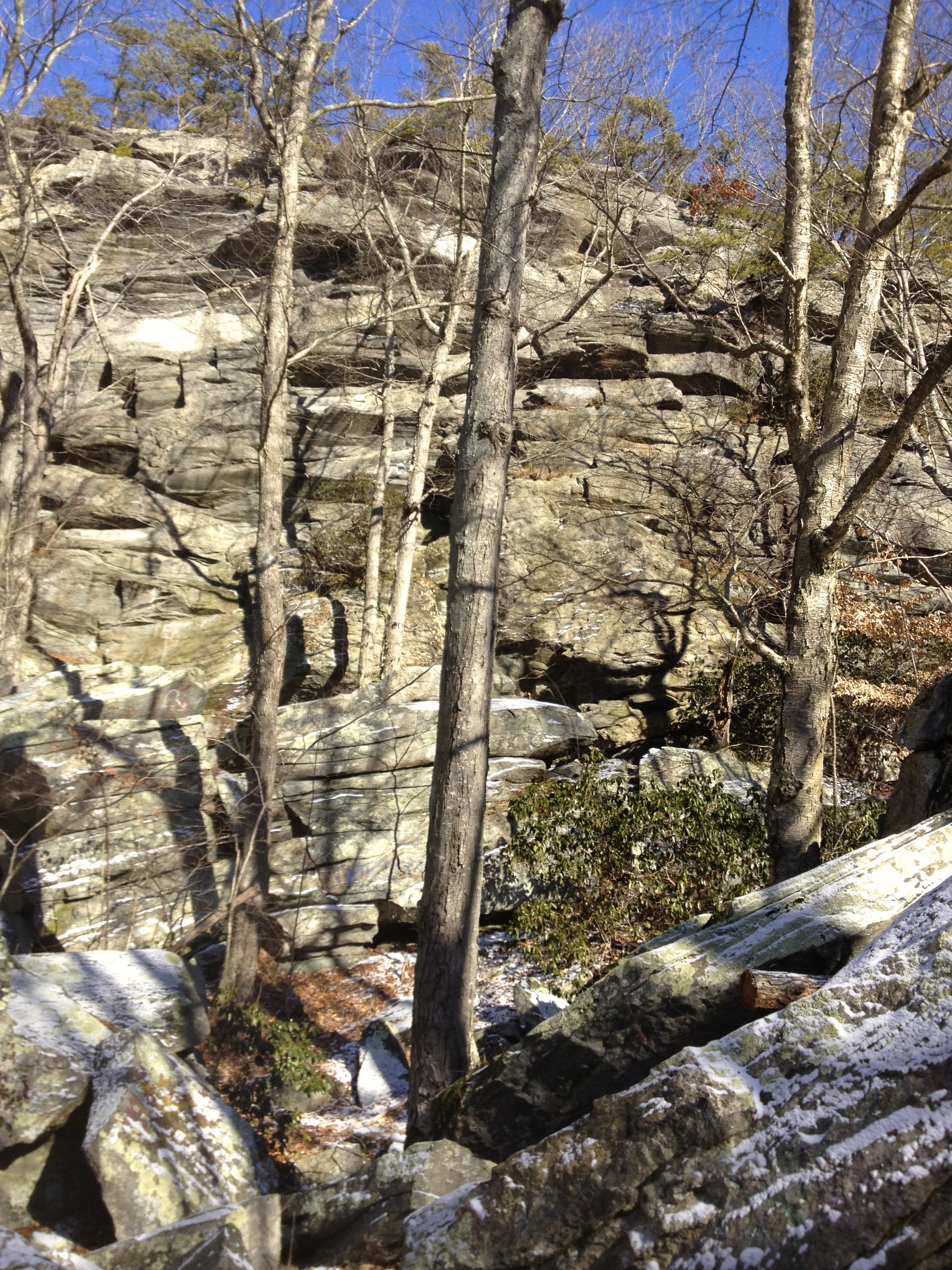 Pine Ledge in Connecticut's Cockaponset State Forest Winthrop/Great Swamp/Pine Ledge Block near Connecticut Route 9.